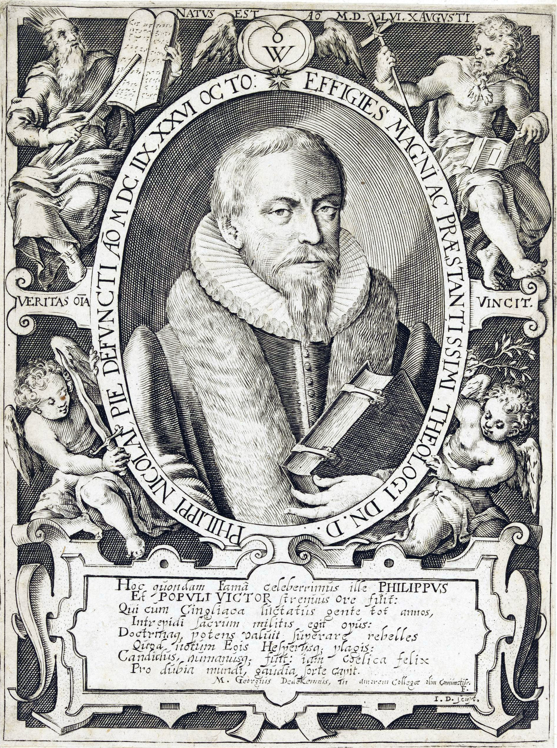 Depicted person: Philipp Nicolai